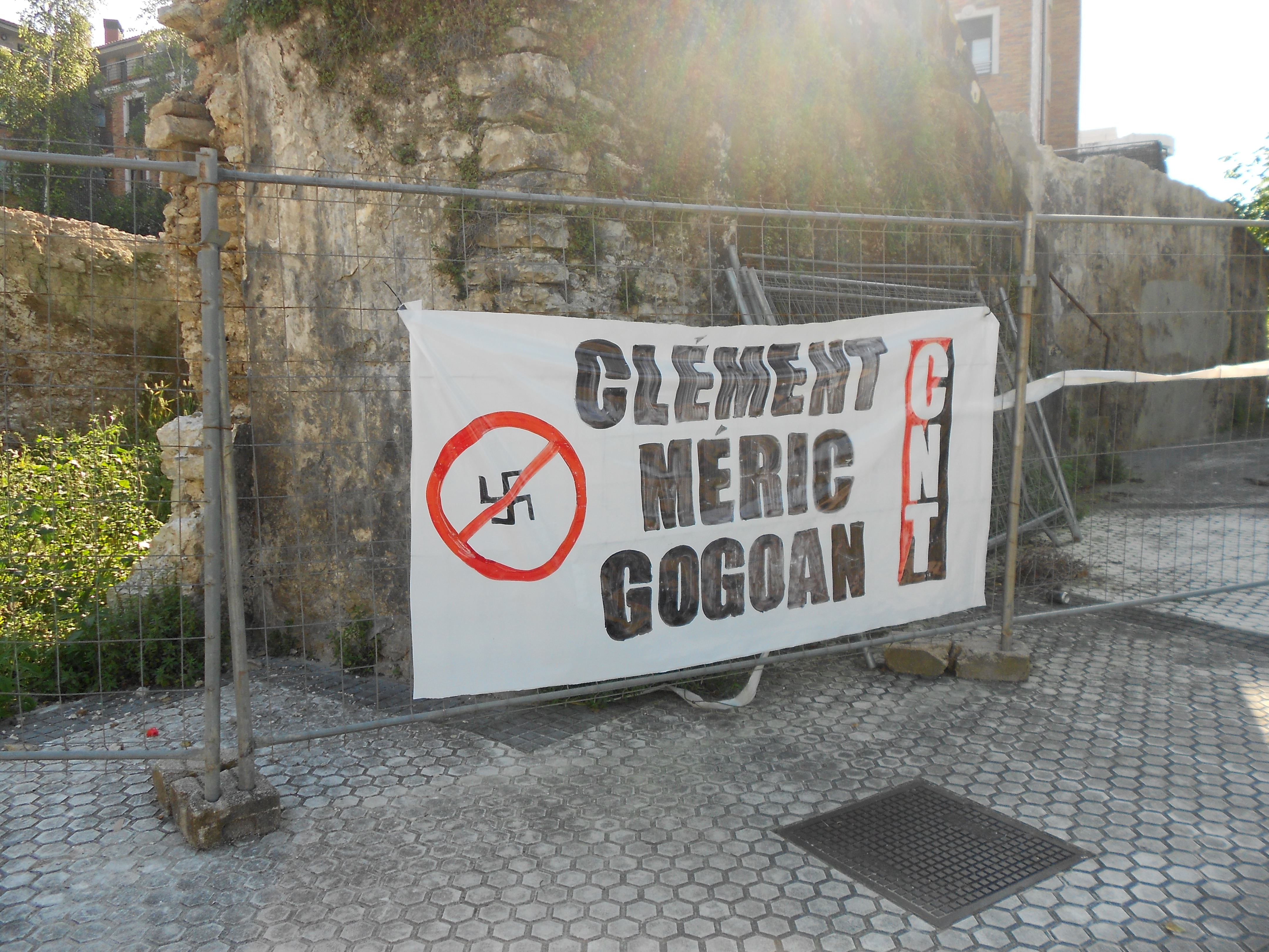 Banner remenbering Clément Méric, in Munto, Aiete, Donostia.